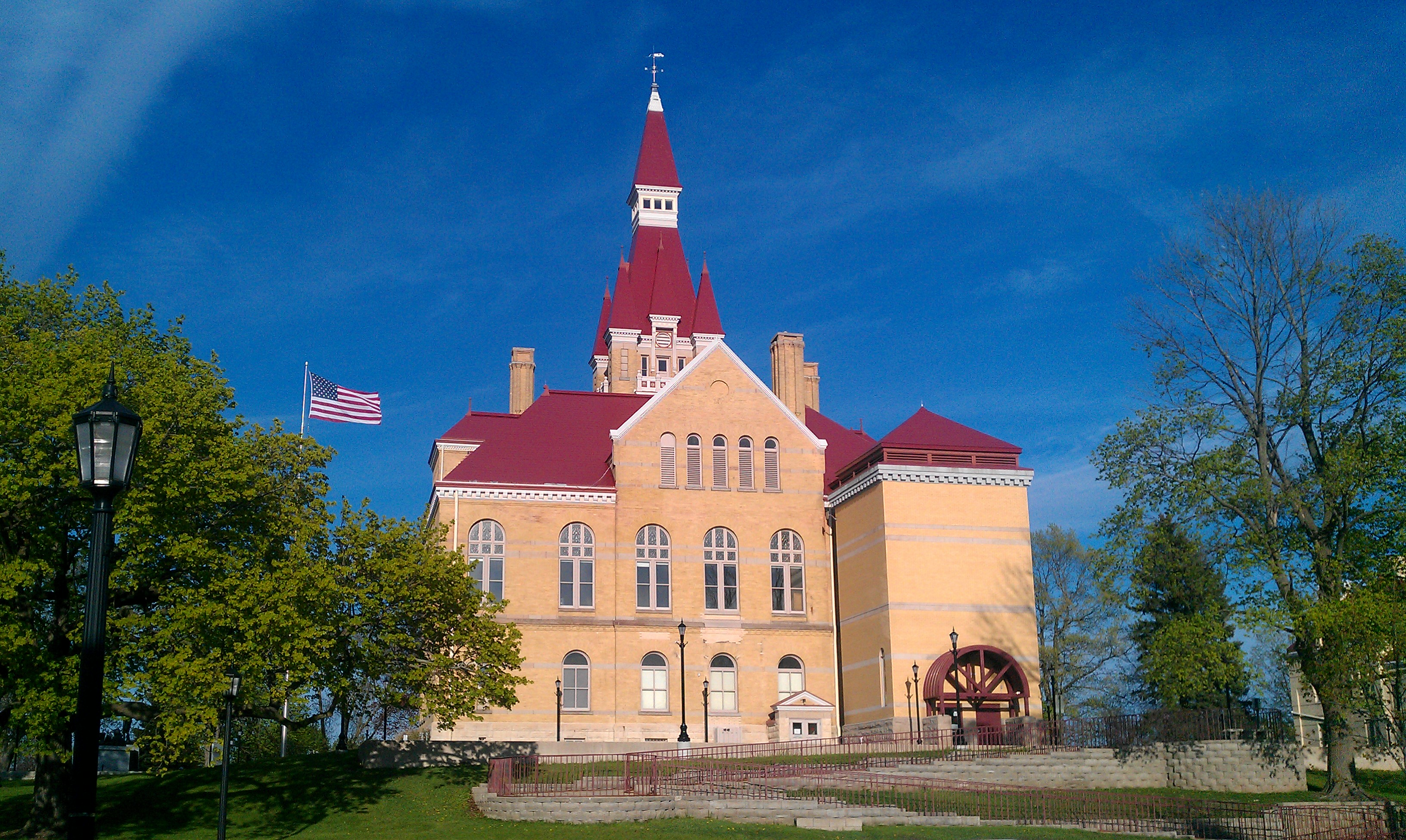 The Washington County courthouse in West Bend. I took this photo myself in 2011. Uploaded with same license to